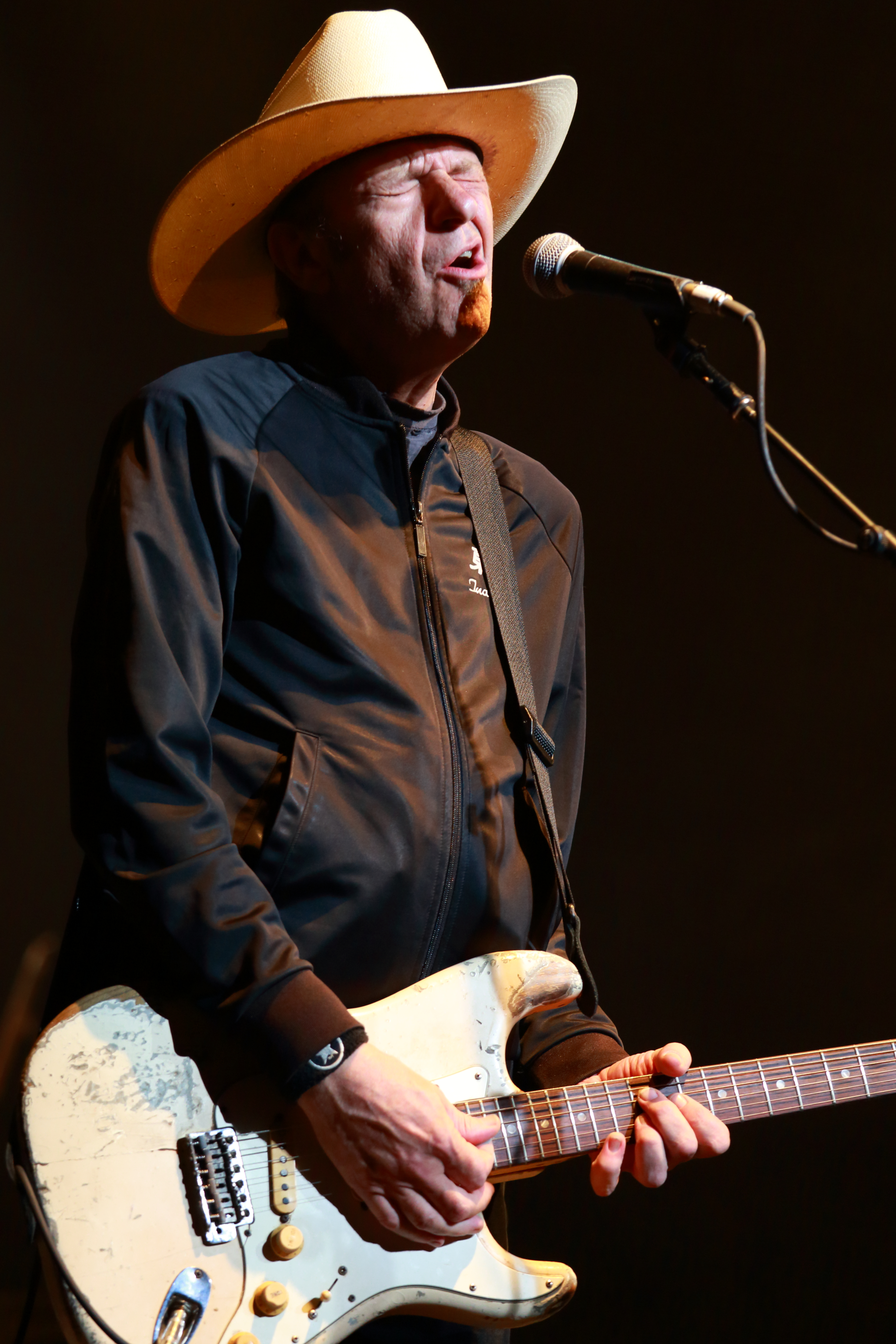 Spencer P Jones performs with the Beast of Bourbon at Byron Bay Bluesfest 2013.